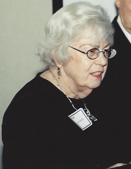 Maryann Mahaffey speaking at 50th Anniversary event for Dr. Henry D. Messer and partner Carl House in 2002.